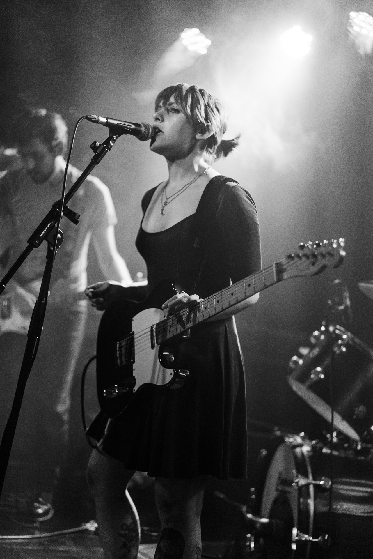 Indie band Fightmilk performing at the Lexington, Islington, in 2017